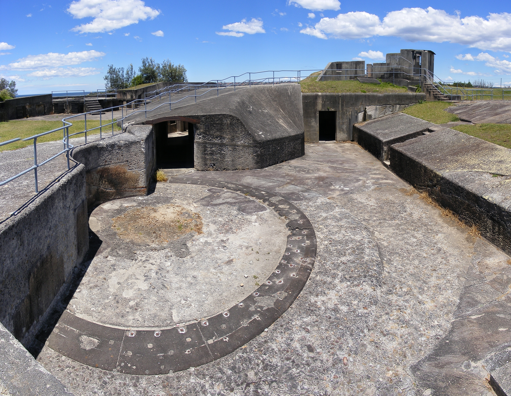 Outer Middle head fort in Mosman, New South Wales. Remains of mounting for leftside gun of two RML 10 inch 25 ton guns. See File:RML 10 inch gun being dismantled Middle Head 1893 AWM P00991.041.jpg for gun in this position in 1893.